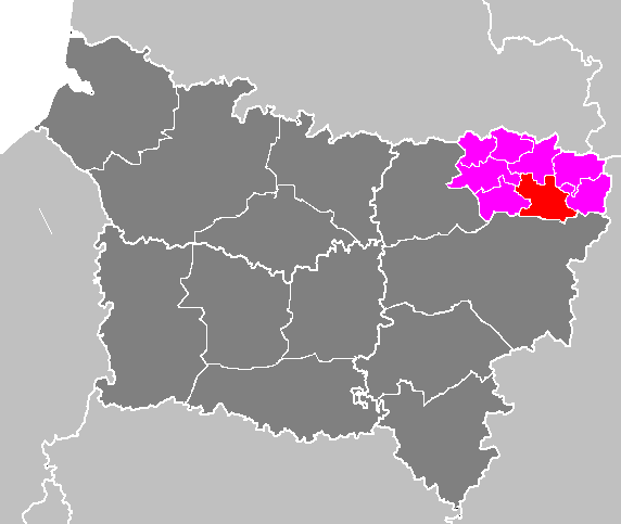 Maps of arrondissements and cantons of France